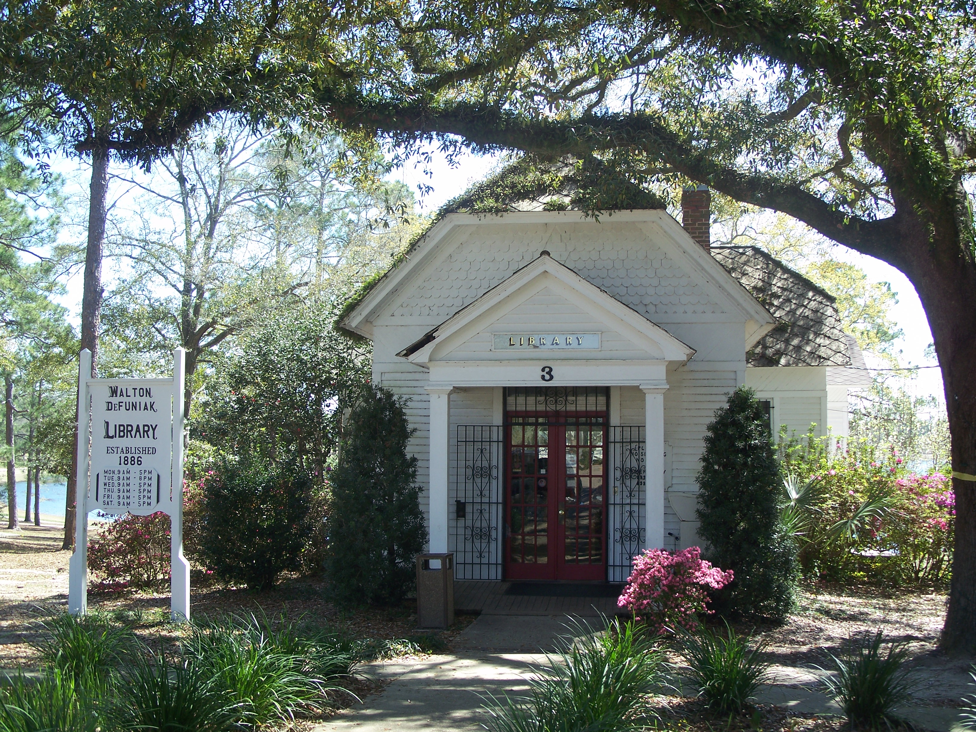 DeFuniak Springs, Florida: DeFuniak Springs Historic District: The Walton-DeFuniak Library. Built in 1886-87, it's the oldest structure in Florida built as a library and still serving as one.